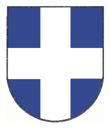 Coat of arms of the diocese of Speyer